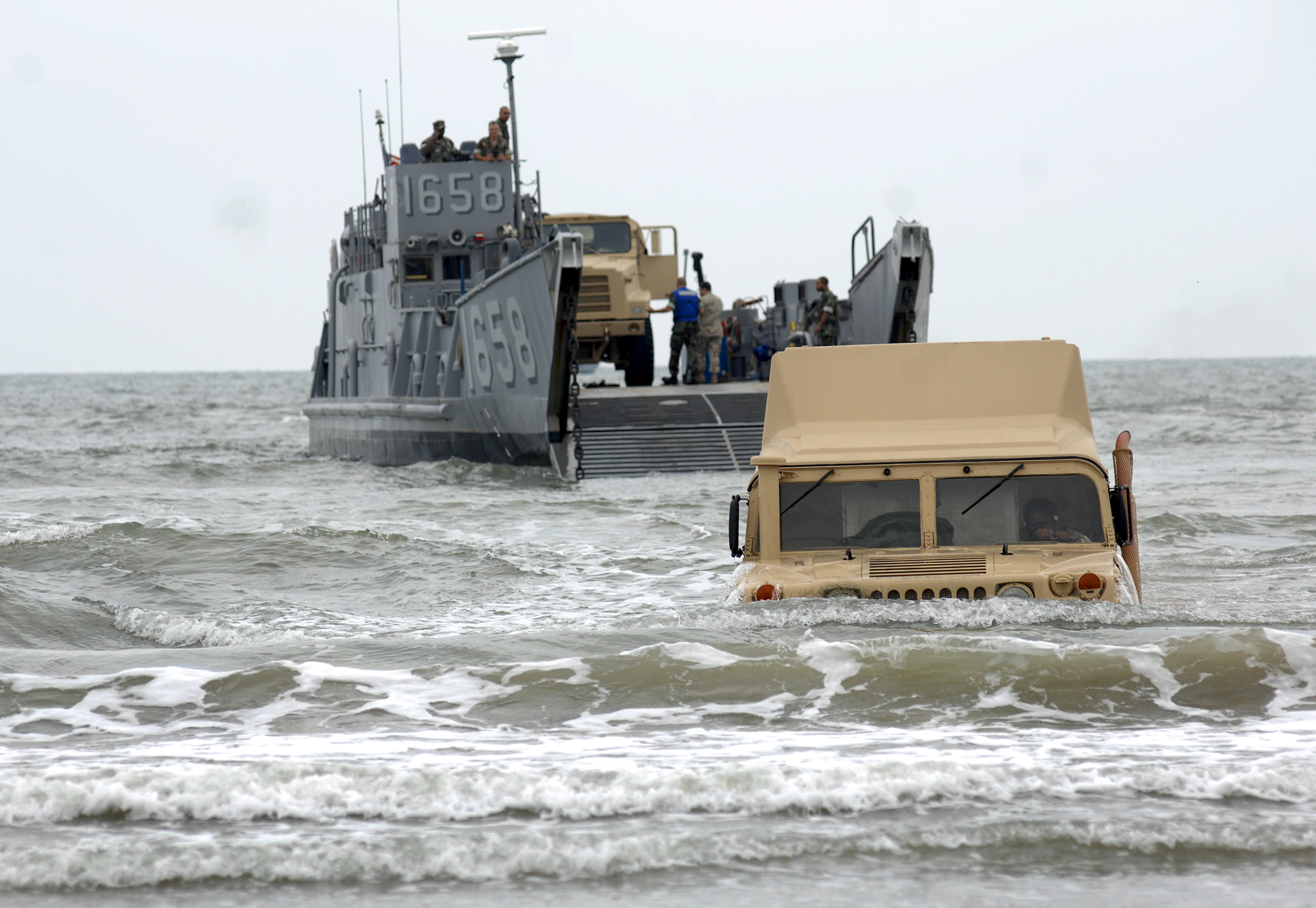 A high mobility multipurpose wheeled vehicle (HUMVEE) exits from USS LCU-1658 (an utility landing craft) on the beach near Galveston, Texas. The HUMVEE was from the amphibious assault ship USS Nassau anchored off Galveston to provide disaster response and aid to civil authorities as directed in the wake of Hurricane Ike.